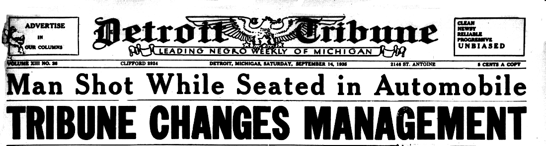 Masthead showing the Detroit Tribune (cropped out text and photos possibly still under copyright)